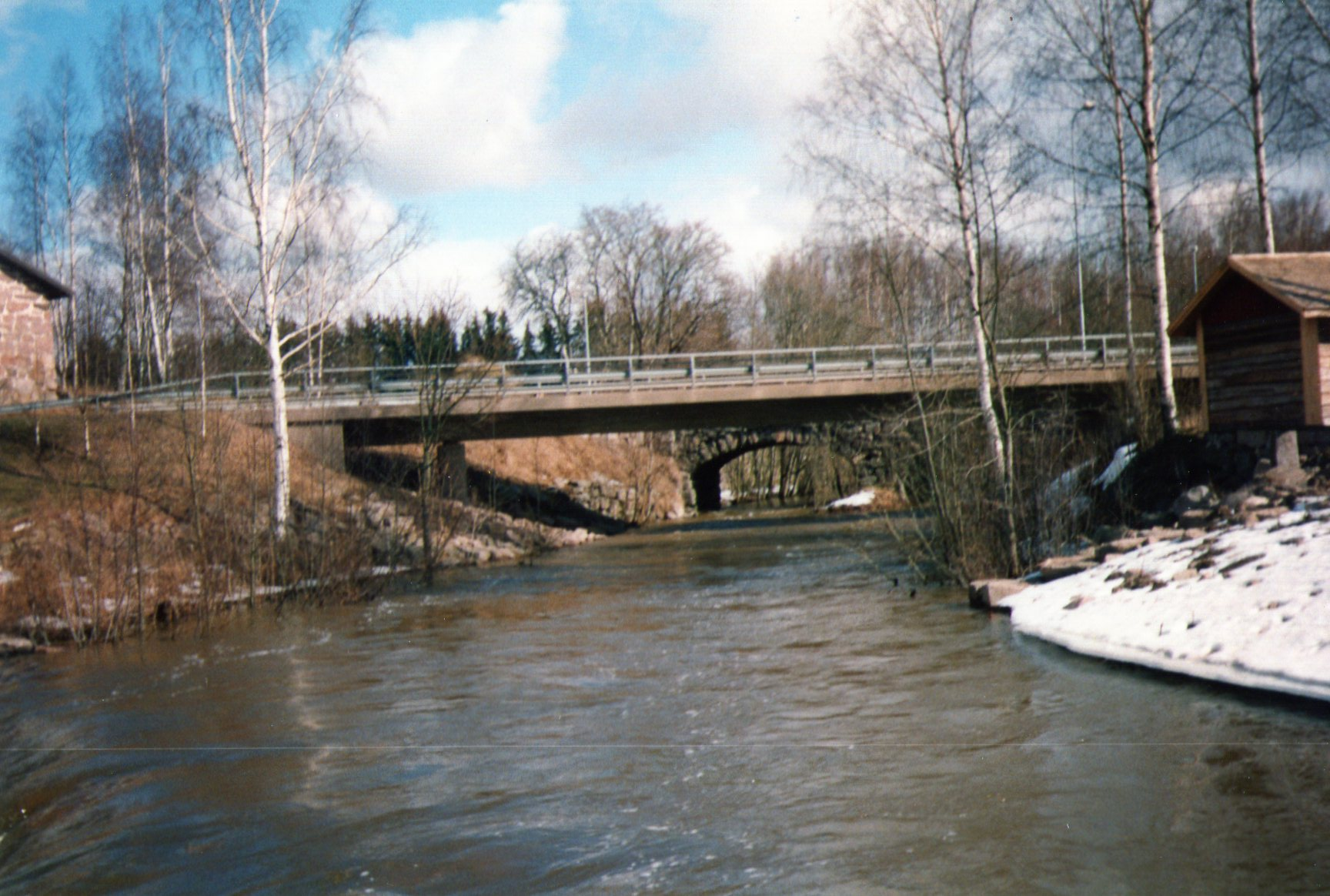 River Eurajoki at Panelia, Finland.